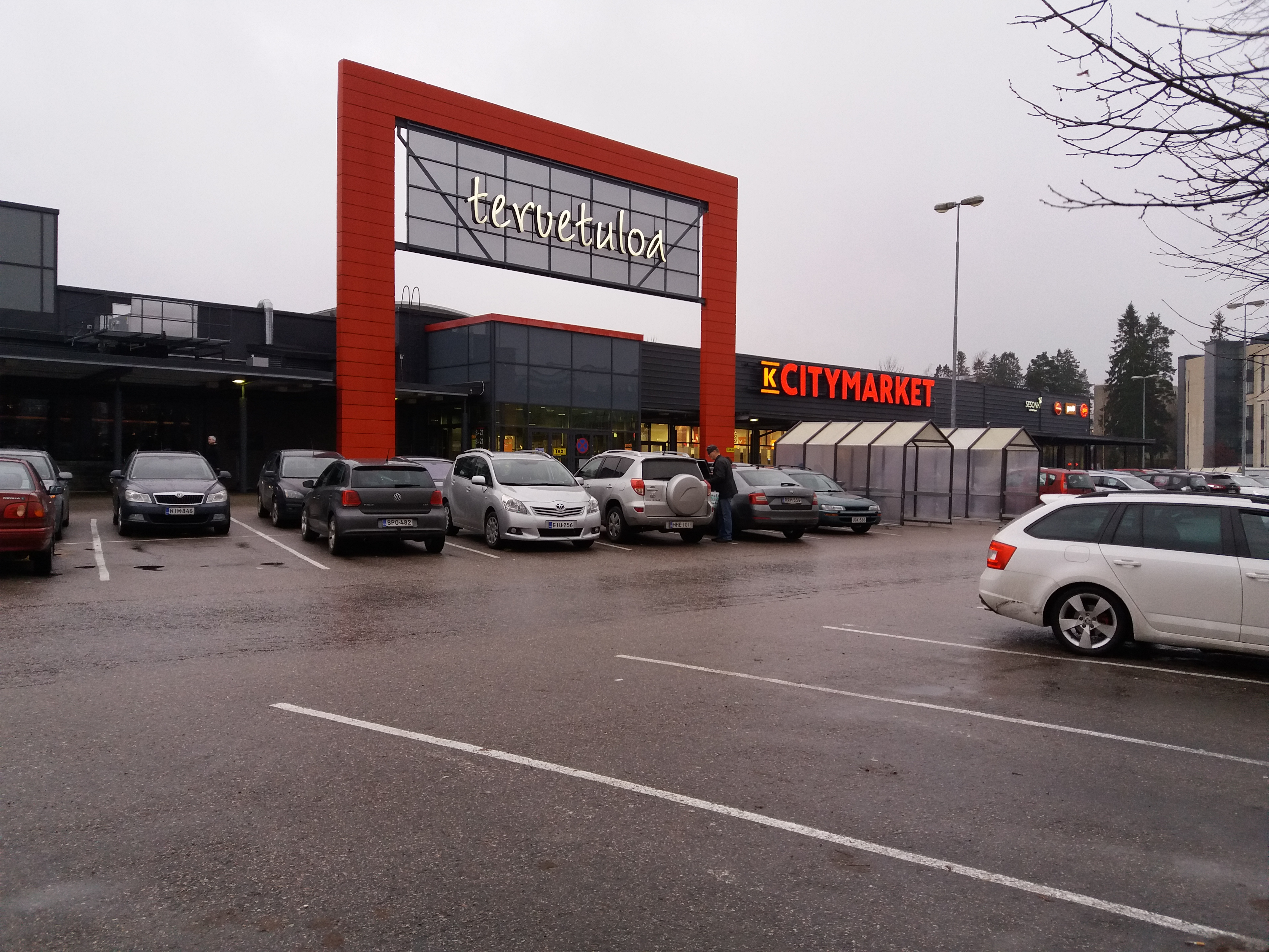 K-Citymarket Järvenpää in Finland, which was awarded to be the world's best grocery store in 2019.